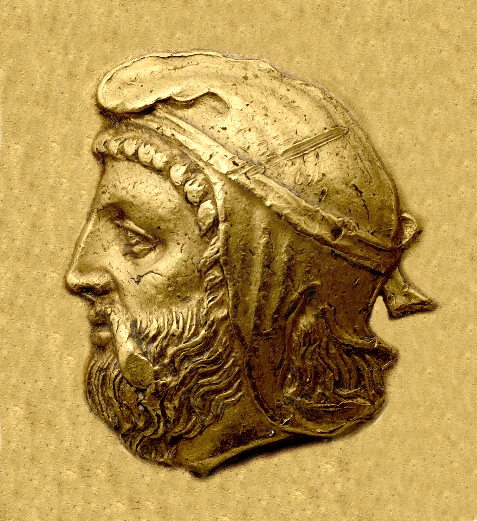 Orontes I portrait